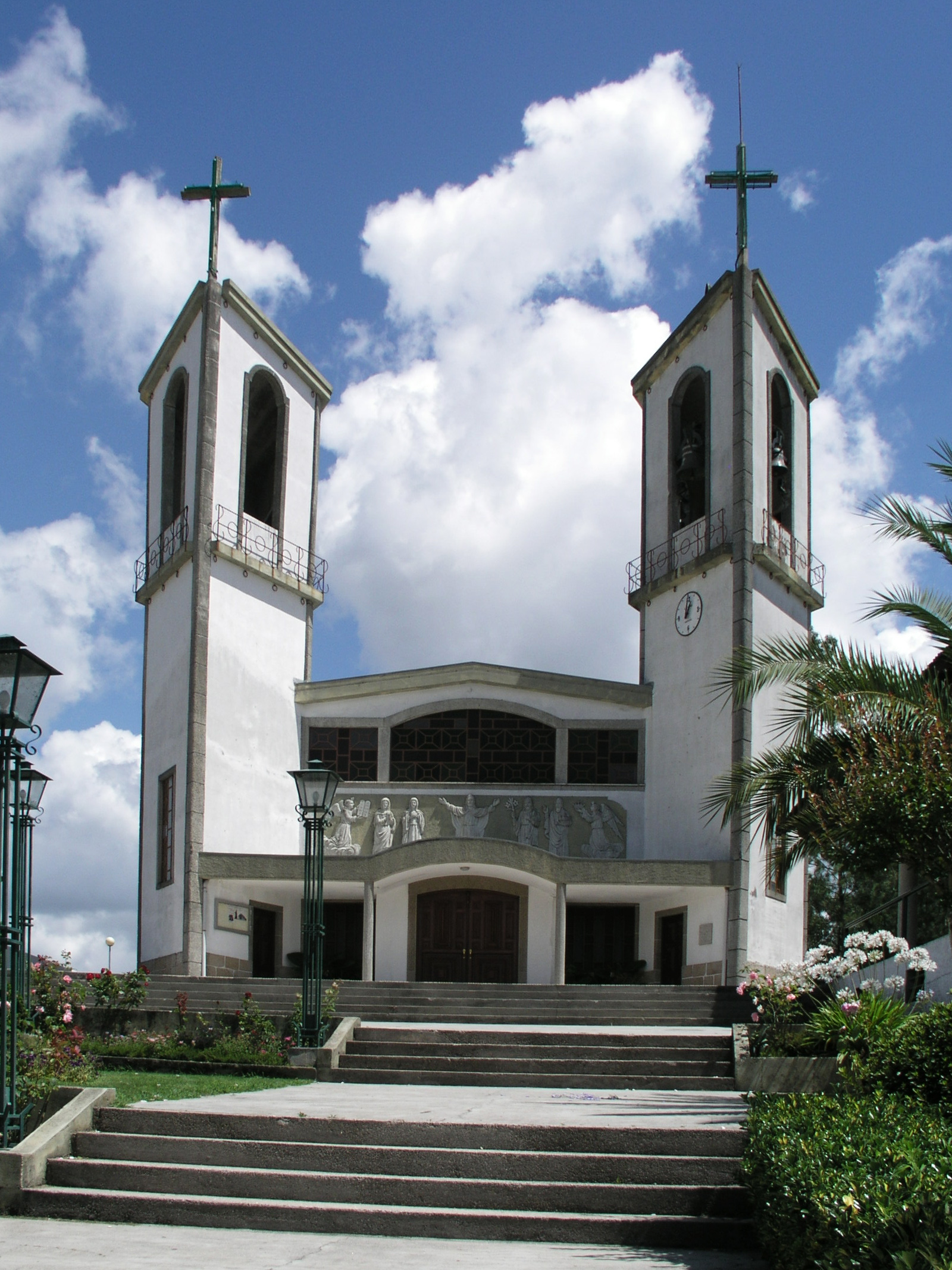 Parochial church of Sandiães, Ponte de Lima, Portugal